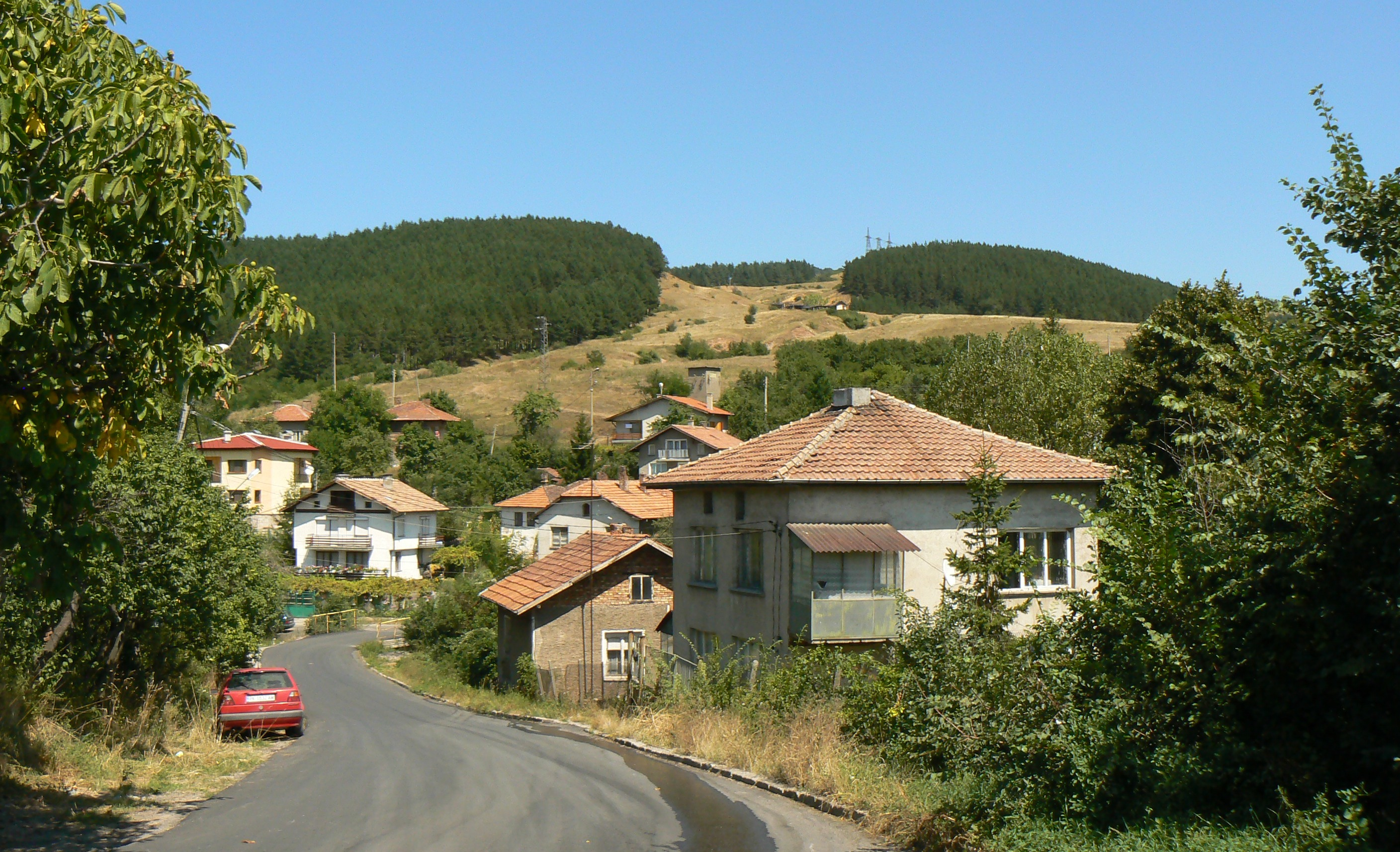 View from village Lyulin, Pernik District, Bulgaria